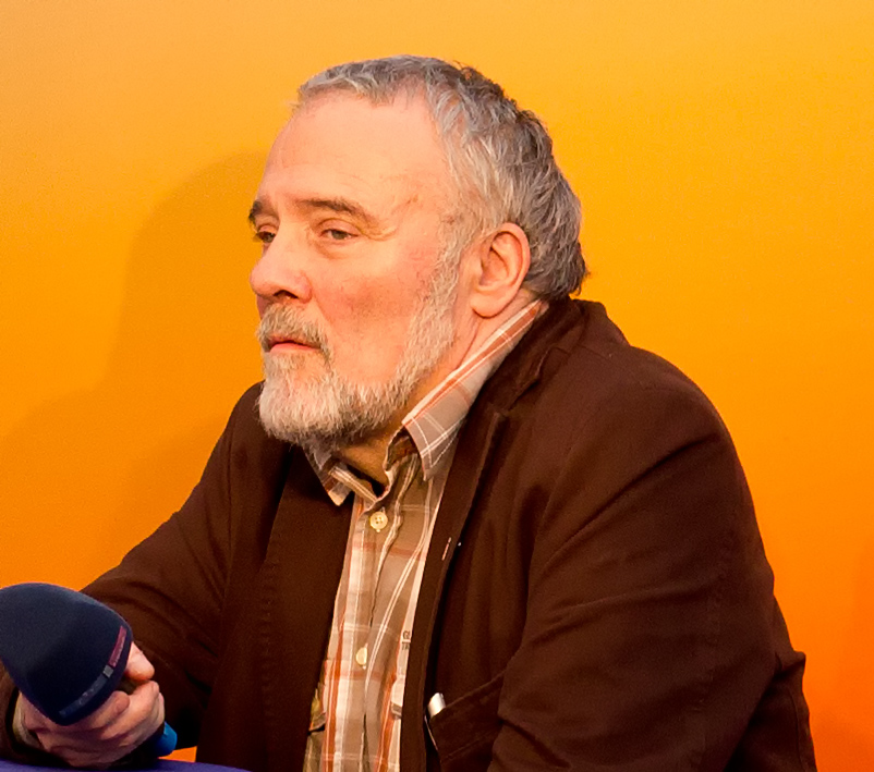 Hungarian writer and historian György Dalos at the bookfair Leipzig on March 18, 2011